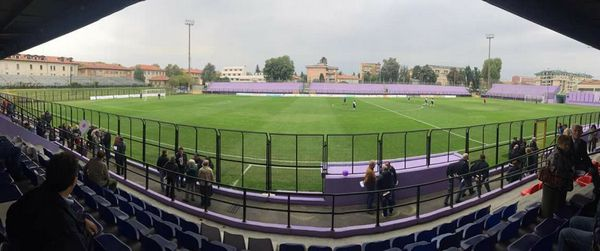 Stadium Giovanni Mari in Legnano